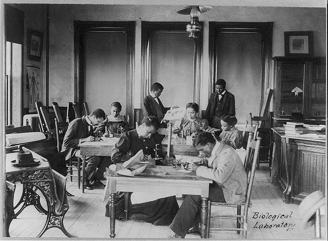 Students inside the Biological laboratory; Circa 1899 TITLE: Agricultural and Mechanical College, Greensboro, N.C. Biological laboratory REPRODUCTION NUMBER: LC-USZ62-61855 (b&w film copy neg.) No known restrictions on publication. CREATED/PUBLISHED: [1899?]